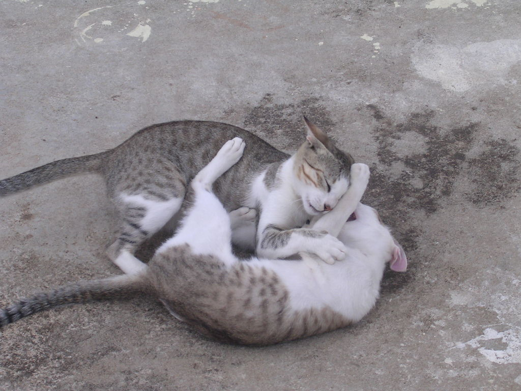 Cat Play-fight